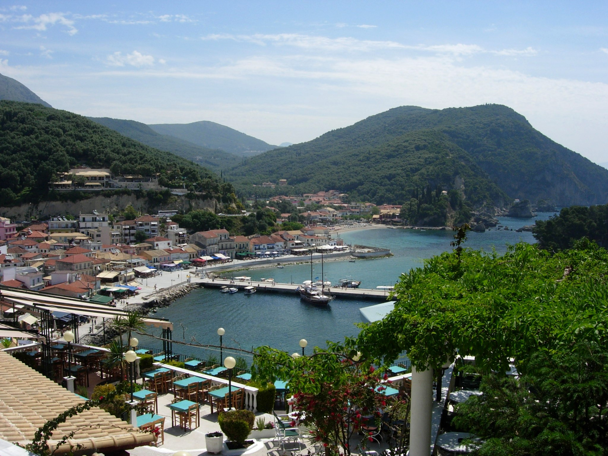 An overview of Parga